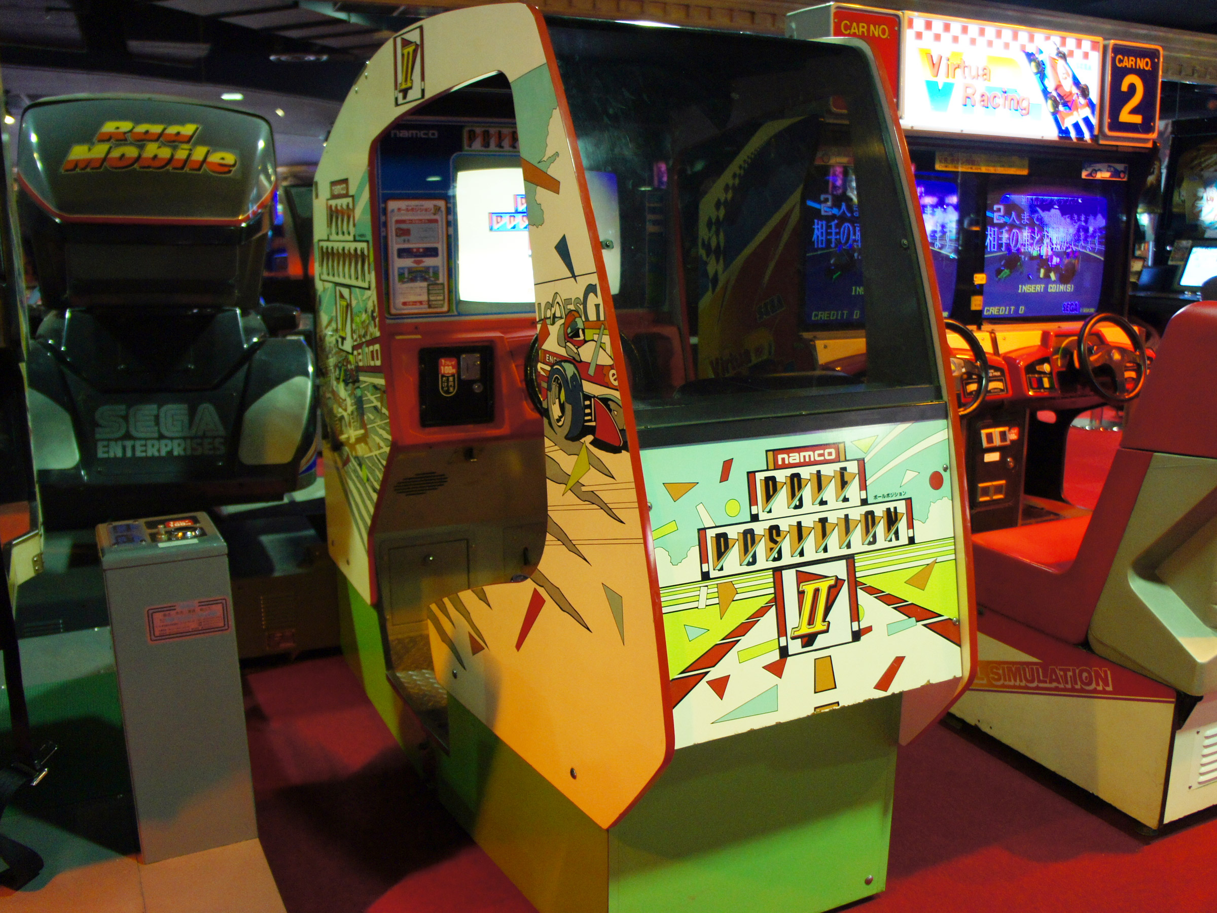 NAMCO's Pole Position II.